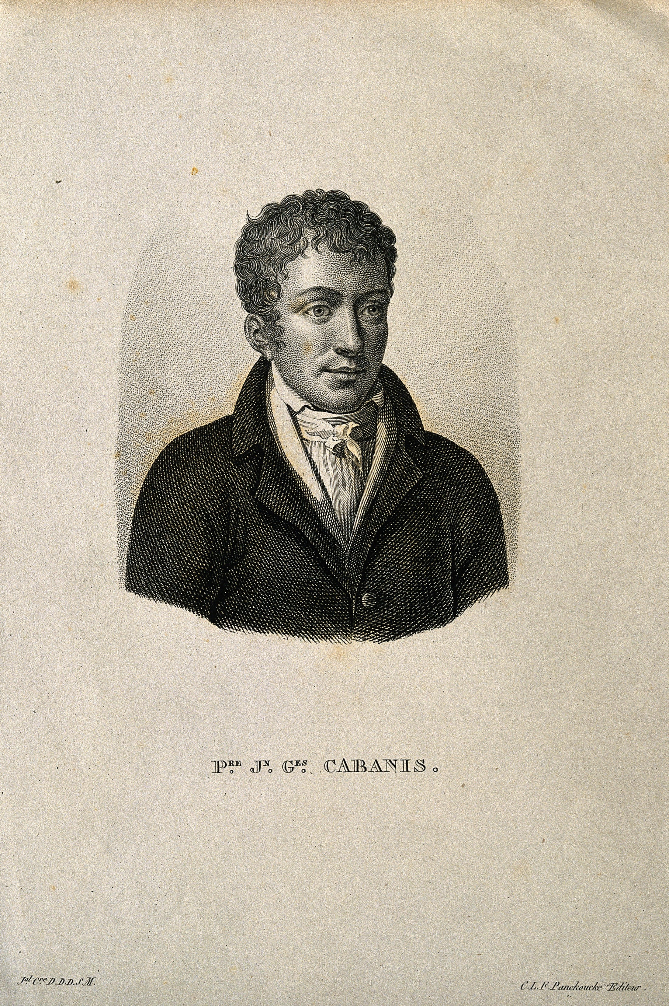 Pierre-Jean-Georges Cabanis. Stipple engraving. Iconographic Collections Keywords: portrait prints; cabanis, pierre-jean-georges,; stipple prints; Pierre-Jean-Georges Cabanis